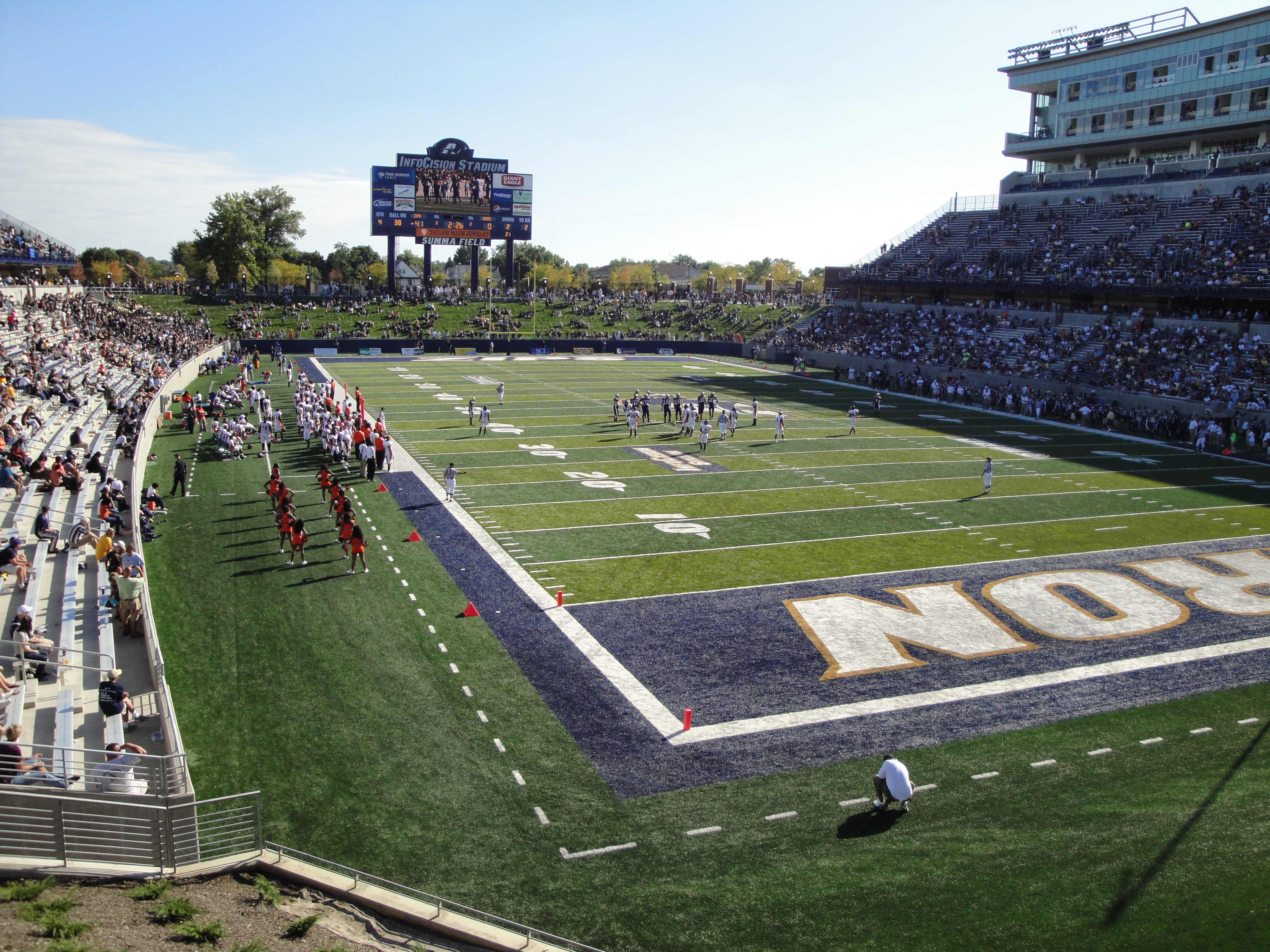 View from north end of InfoCision Stadium during the September 12, 2009 football game between Morgan State University and the University of Akron, the first Zips game in said stadium.